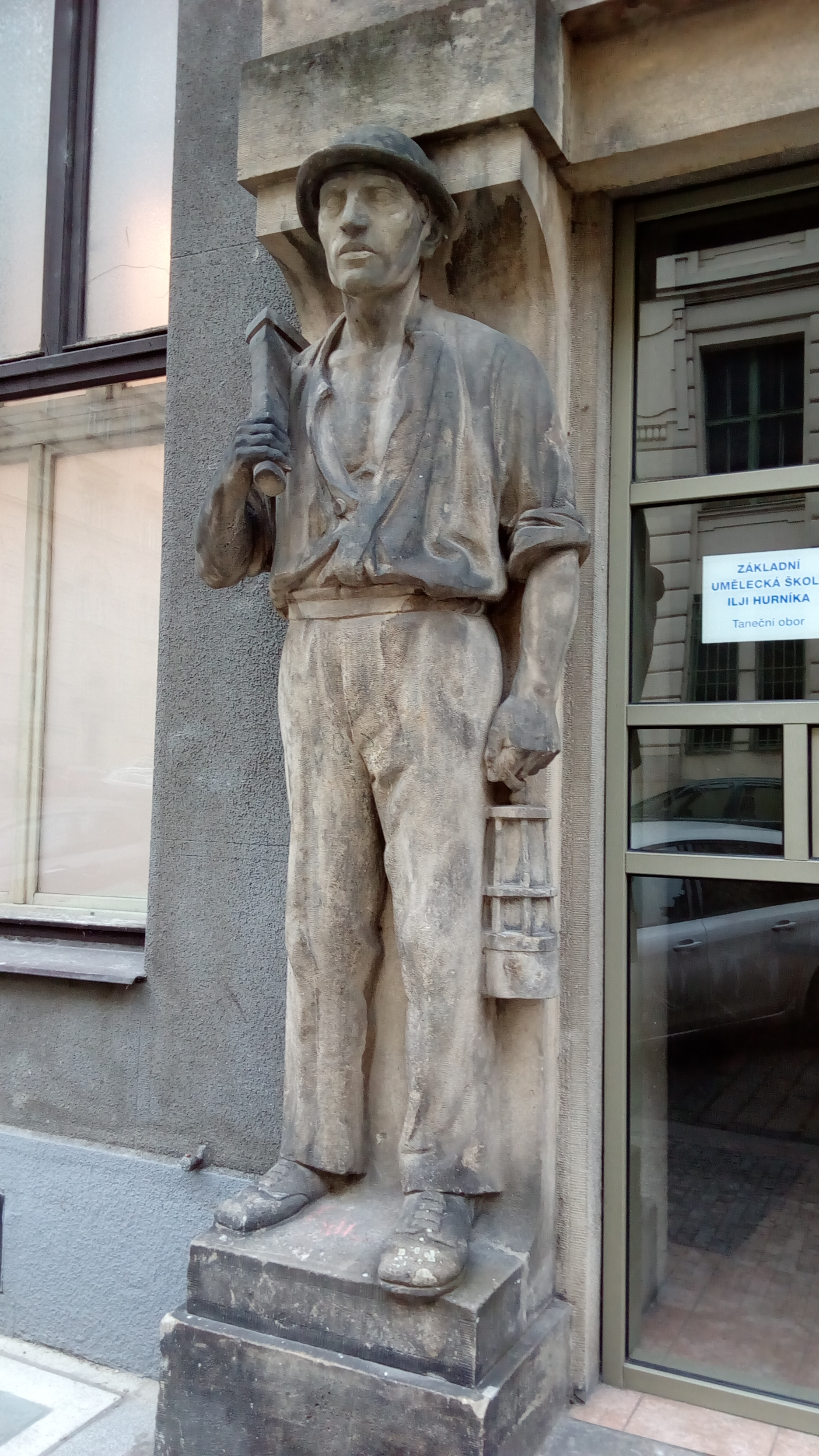 Josef Augustin Paukert, Statue of miner, sandstone, the building in Prague - New Town, Dittrichova street Num.337